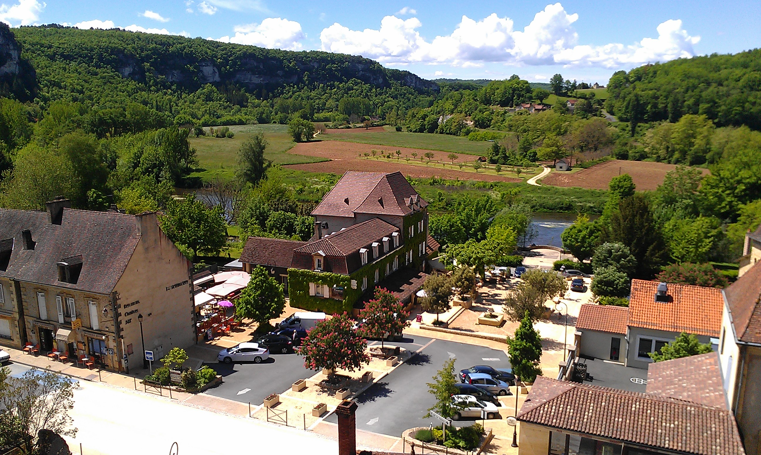 The town centre of Les Eyzies-de-Tayac-Sireuil, Dordogne. Spring 2013.